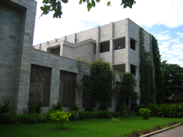 The senior wing of The Mother's International School